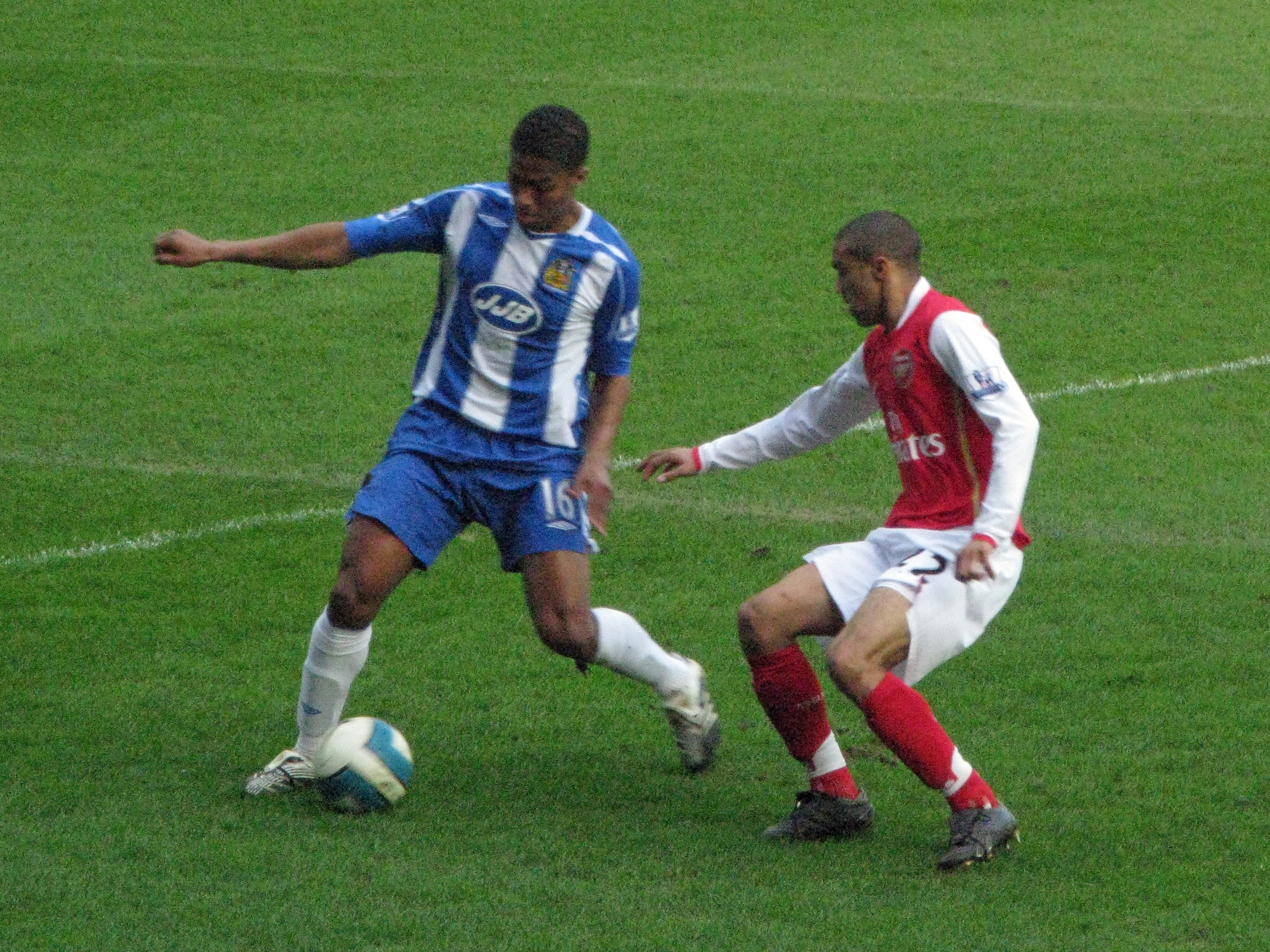 Antonio Valencia of Wigan defended by Gael Clichy of Arsenal.